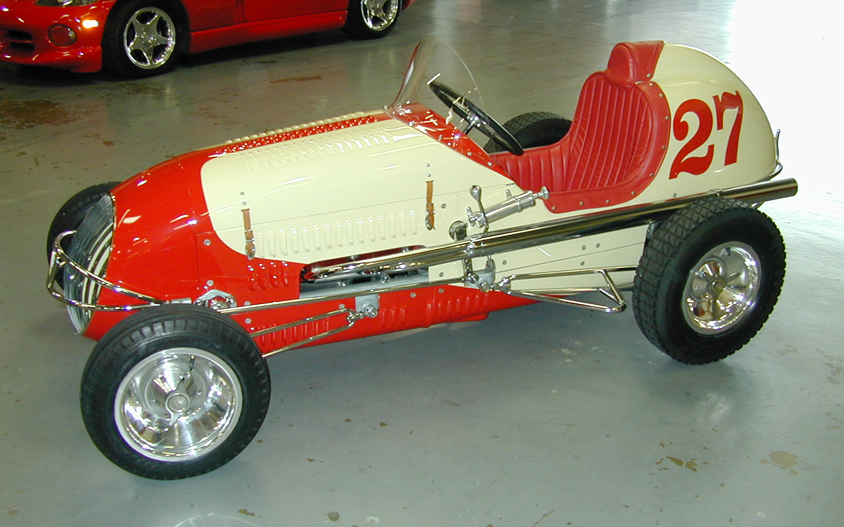 Midget Racing Car owned by Vic Edelbrock Edelbrock Kurtis Kraft midget, Ford Flathead V8